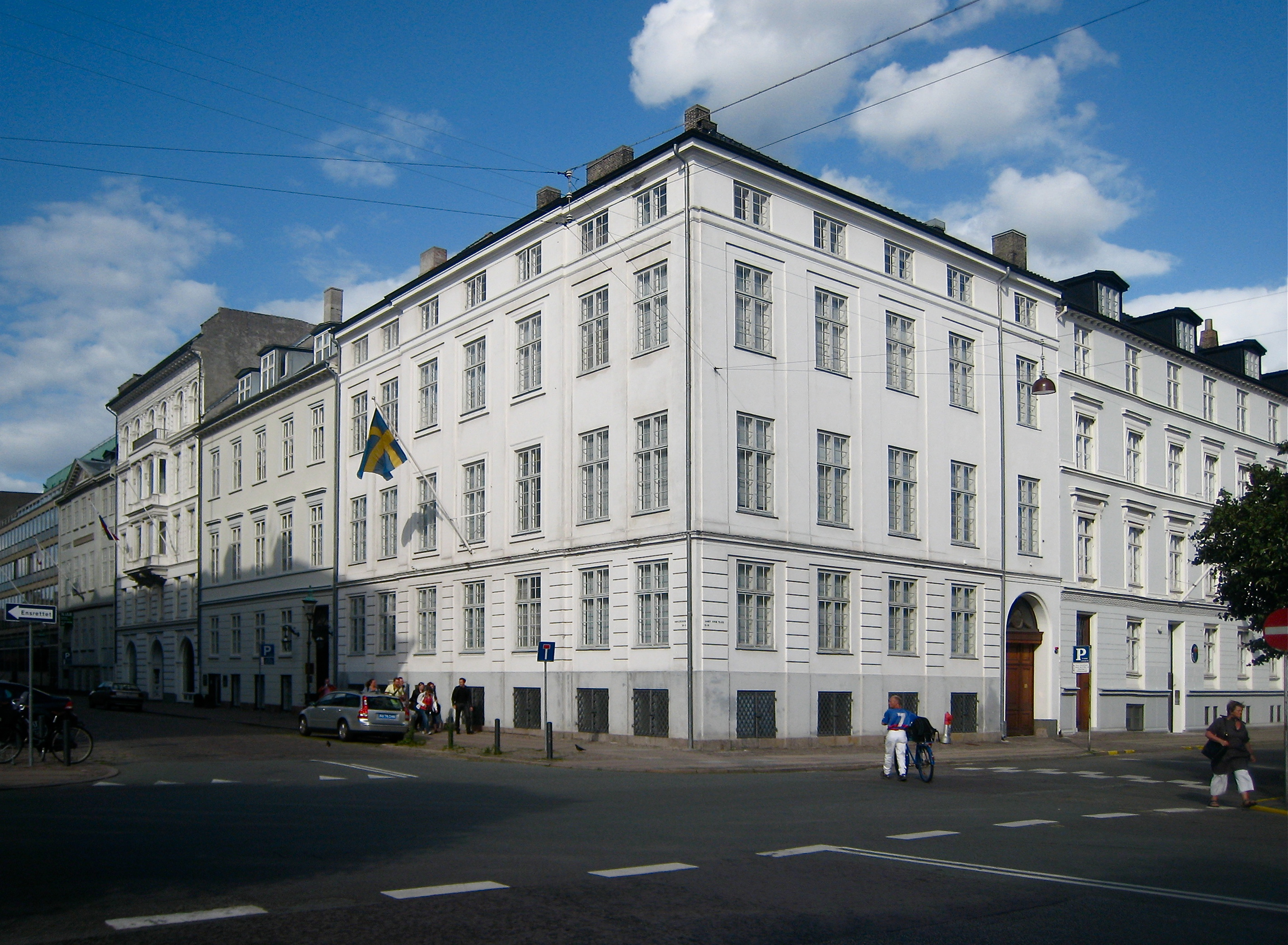 Swedish embassy in Copenhagen, Denmark